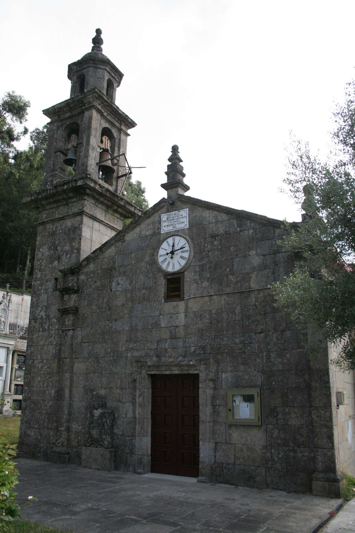 Church of San Fiz de Forzáns. Ponte Caldelas (Spain)